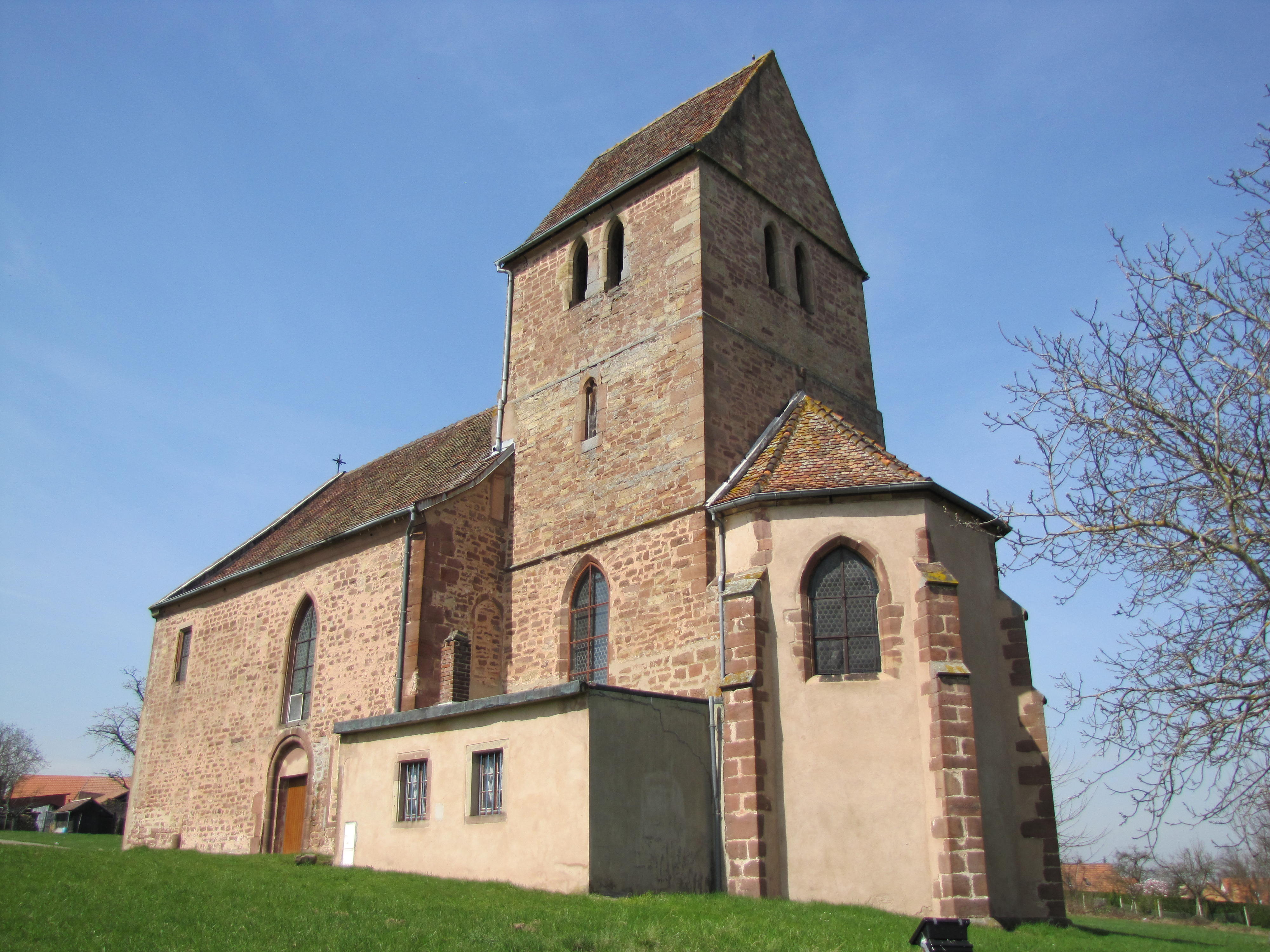 Alsace, Bas-Rhin, Chapelle du Sindelsberg, ancien couvent de Bénédictines Saint-Blaise: It is indexed in the Base Mérimée, a database of architectural heritage maintained by the French Ministry of Culture, under the references PA00084786 and IA67007753.